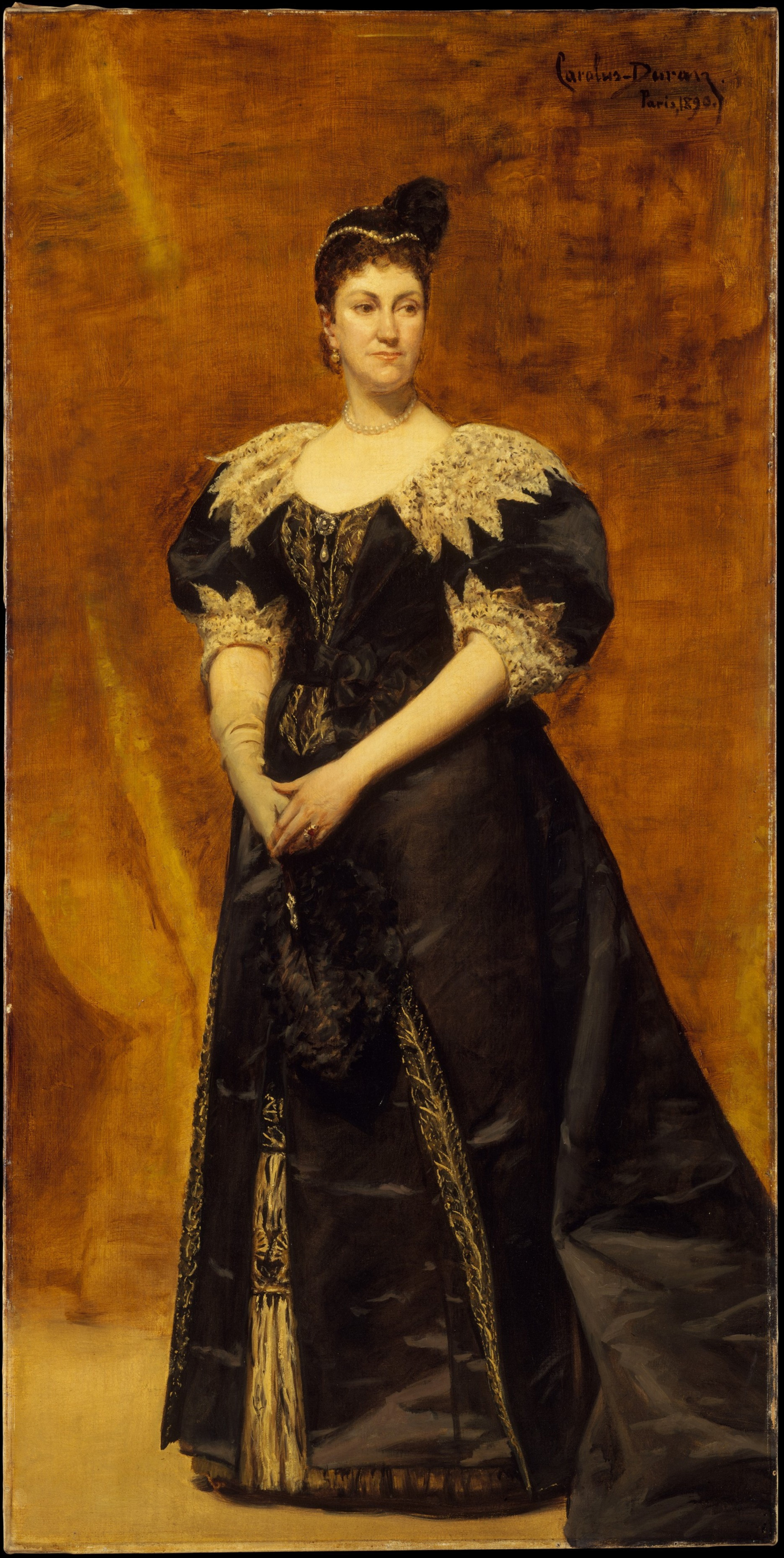 Mrs. William Astor (Caroline Webster Schermerhorn, 1831–1908)